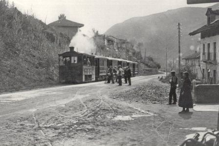 San Bernardino, tramway stop